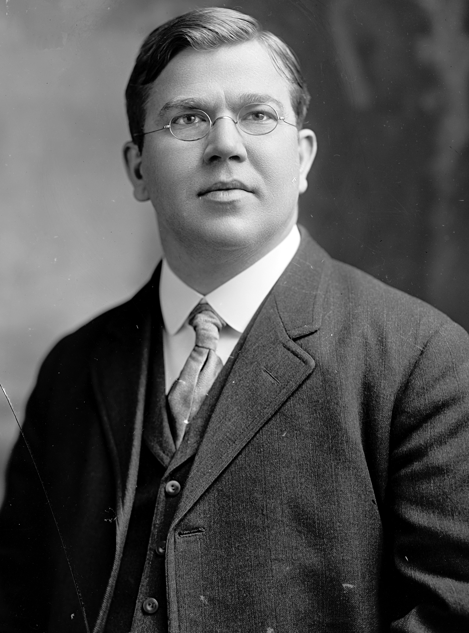 Henry S. Caulfield, Governor of Missouri